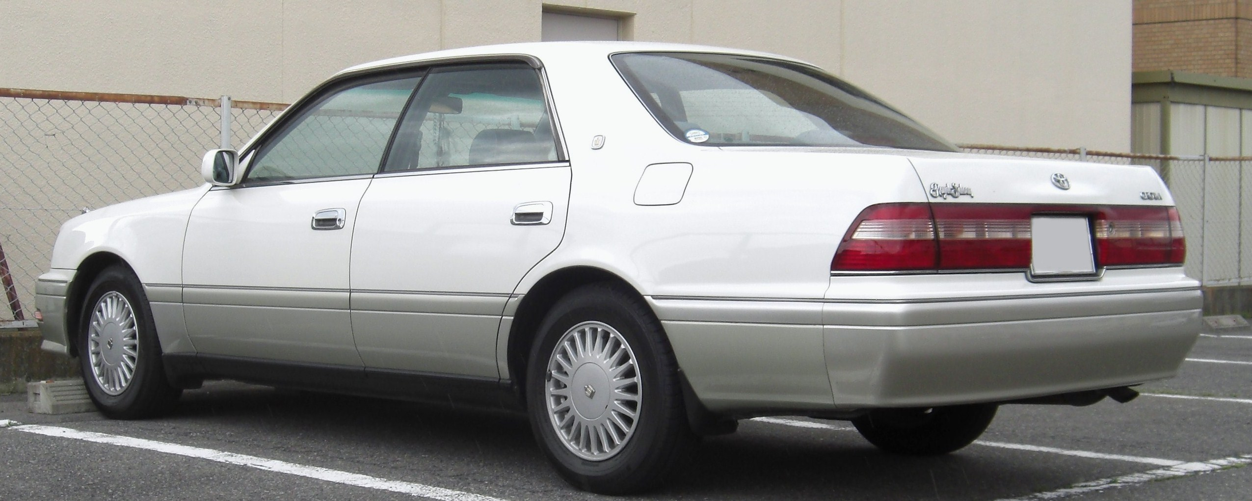 Toyota Crown